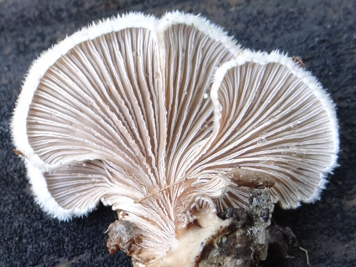 Schizophyllum commune